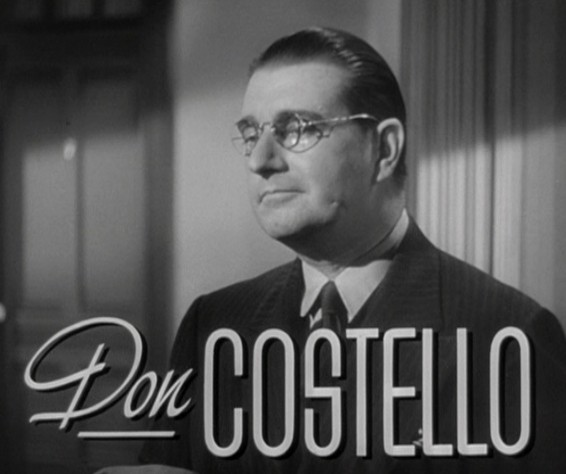 Cropped screenshot of Don Costello from the trailer for Another Thin Man